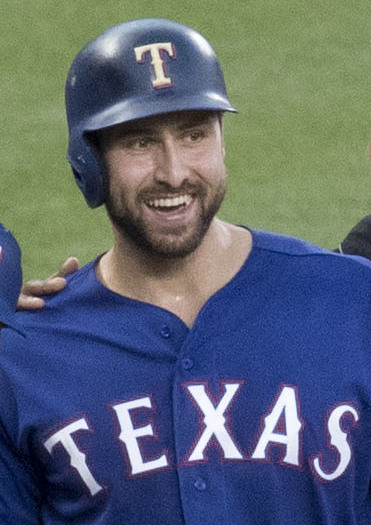 Rangers at Orioles 7/17/17